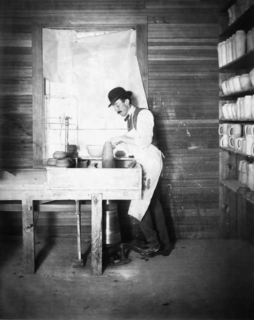 A man in a bowler hat, vest, bow tie and apron presses the brake of a potter's wheel with his foot, Van Briggle's Art Pottery, Colorado Springs, El Paso County, Colorado. The belt-driven flywheel spins, and the clay in his hands is still. Mugs and vases line interior shelves behind him; an armature is by the window.